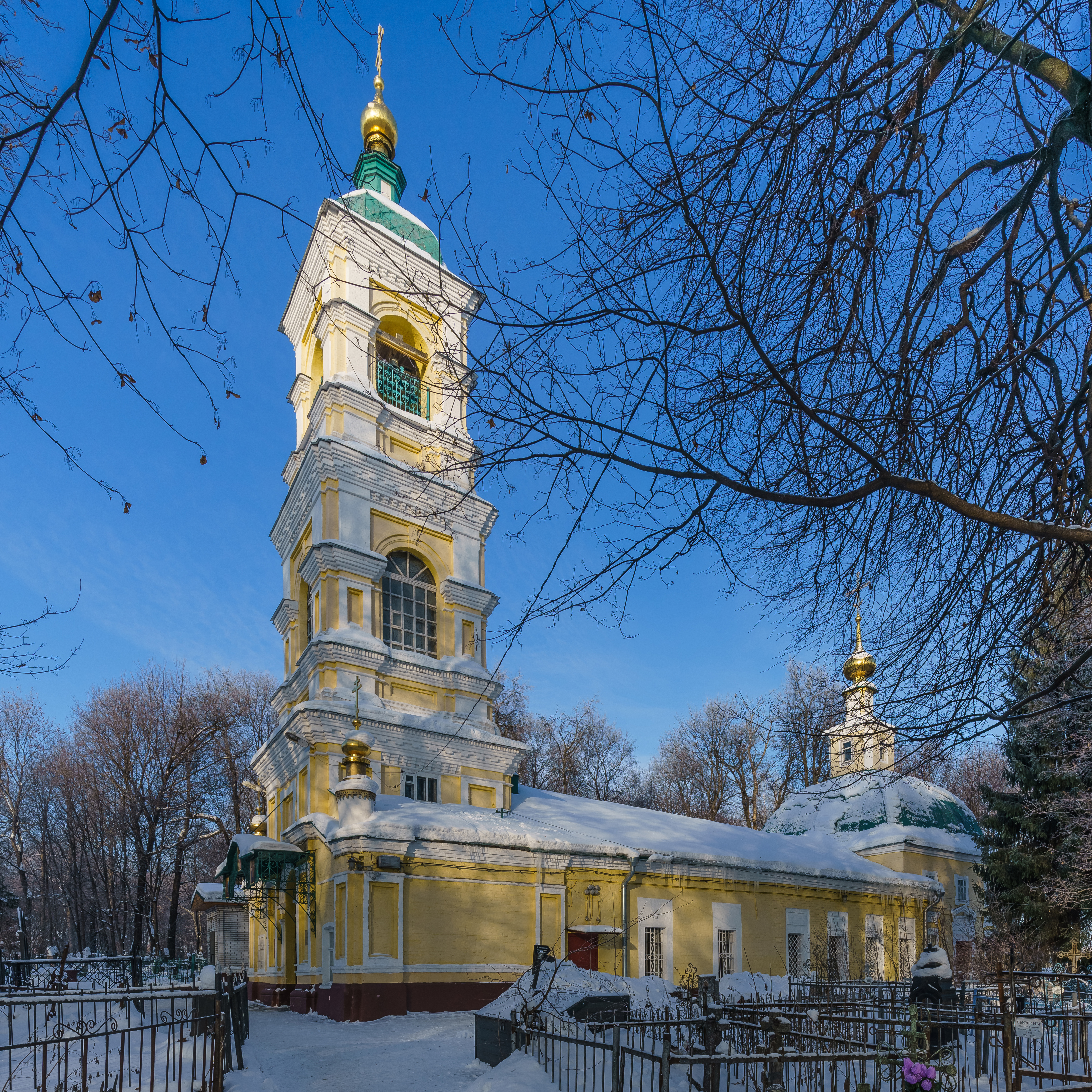 St. Vladimir Church in Vladimir, Russia